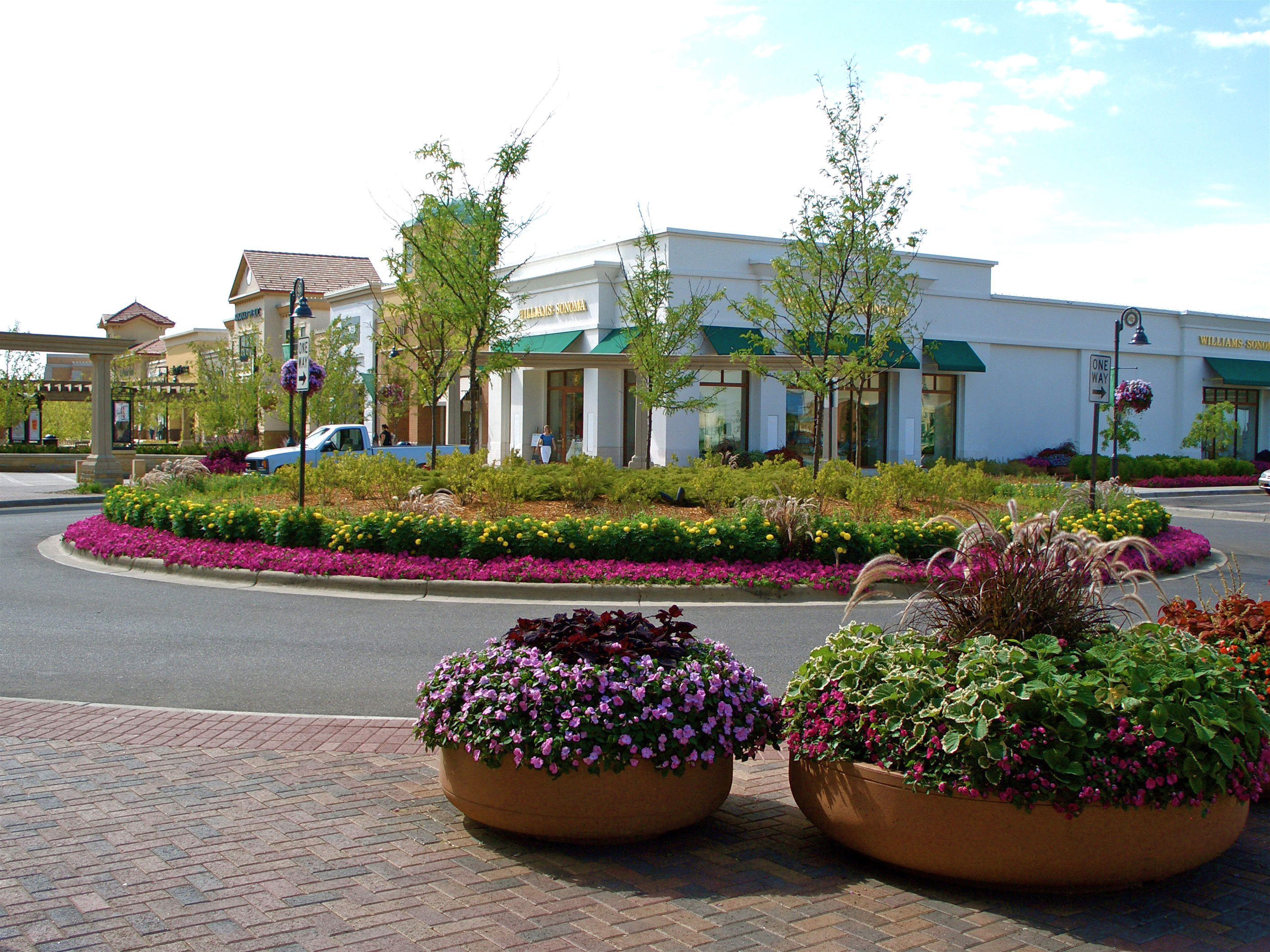 The Shoppes at Arbor Lakes. Minnesota's first lifestyle center mall. Maple Grove, Minnesota. July 2005.